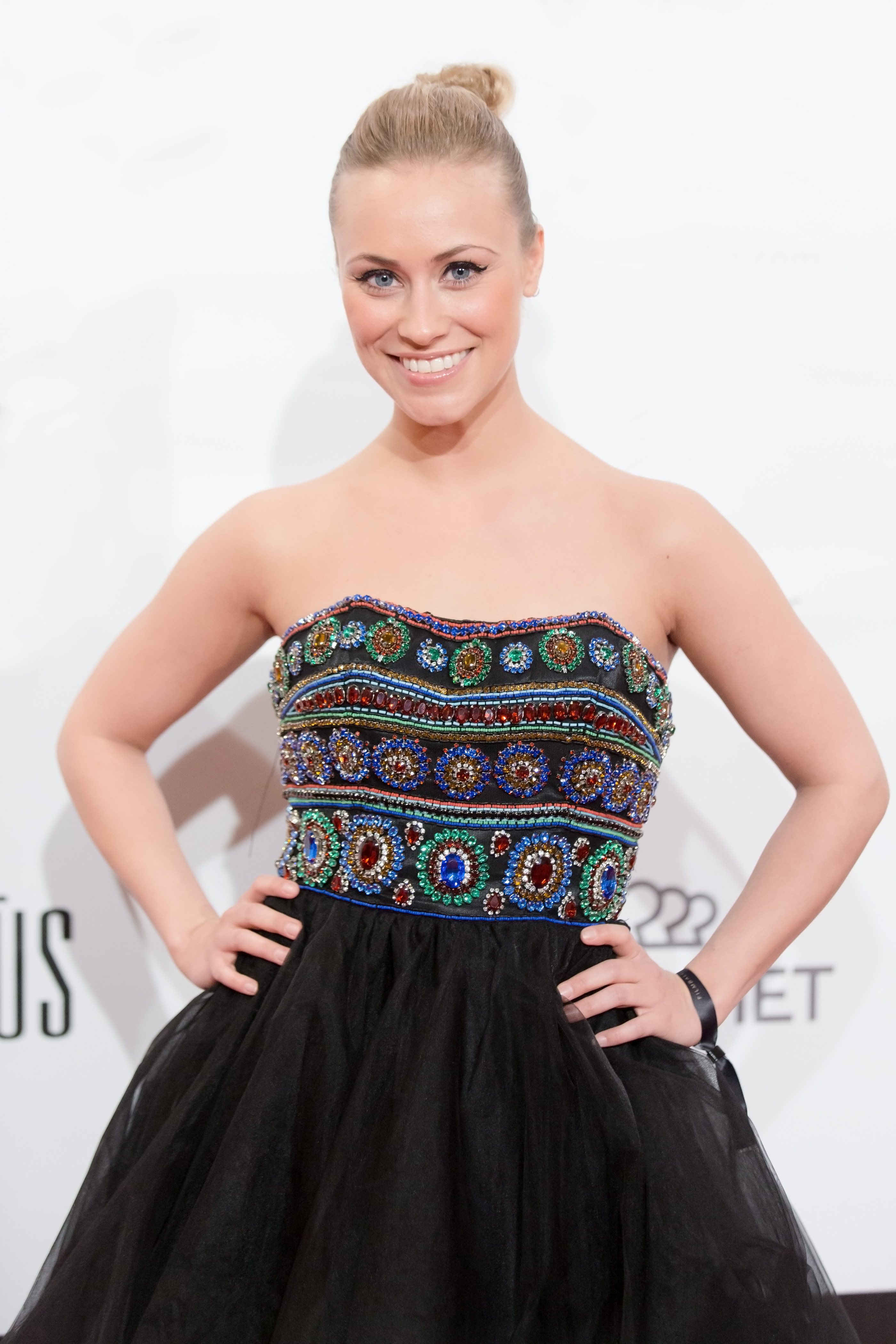 Sina Tkotsch on the red carpet of the Filmball Vienna 2016 at Rathaus, Vienna, Austria.